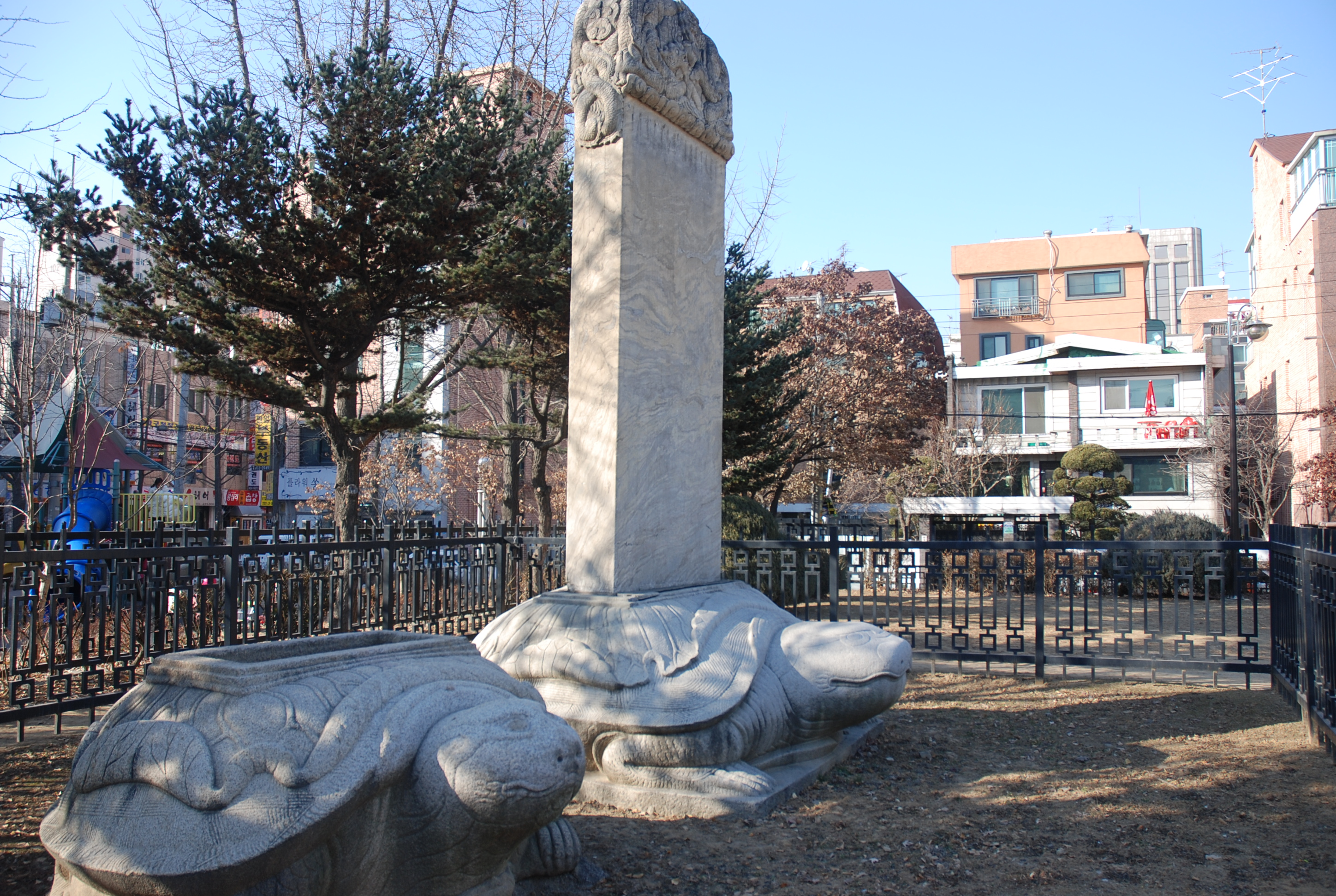 Samjeondo Monument at Songpa gu Sukchondong, Seoul, Korea